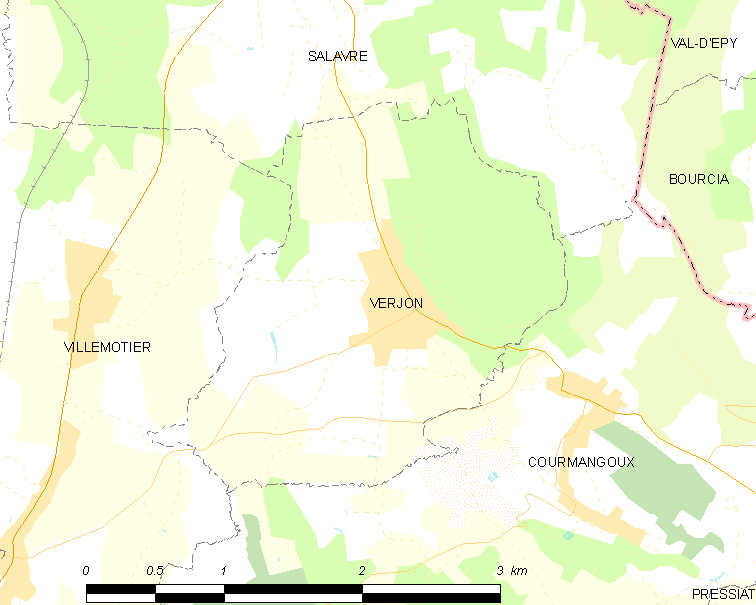 Map of French commune: Verjon Map commune FR insee code 01432.png